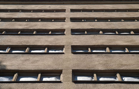 Windows of the Communal House of the Textile Institute in Moscow